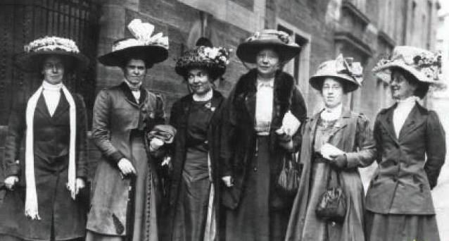 1911 L-R Jeanie Spence, Mrs Lamont, Agnes Brown, Mary Macarthur, Kate McLean, Rachel Devine at the STUC conference Scottish Trades Union Council in Dundee. Dundee Advertiser on 27th April 1911 and was titled "Ladies of STUC in Dundee". Elsewhere it said Jeanie Spence (Jute and Flax workers, Dundee), Miss Lamont (National Federation of Women Workers), Agnes Brown (National Federation of Women Workers), Mary McArthur (national leader and general secretary of the National Federation of Women Workers) and Rachel Devine (Jute and Flax Workers, Dundee) - one missing but job roles`